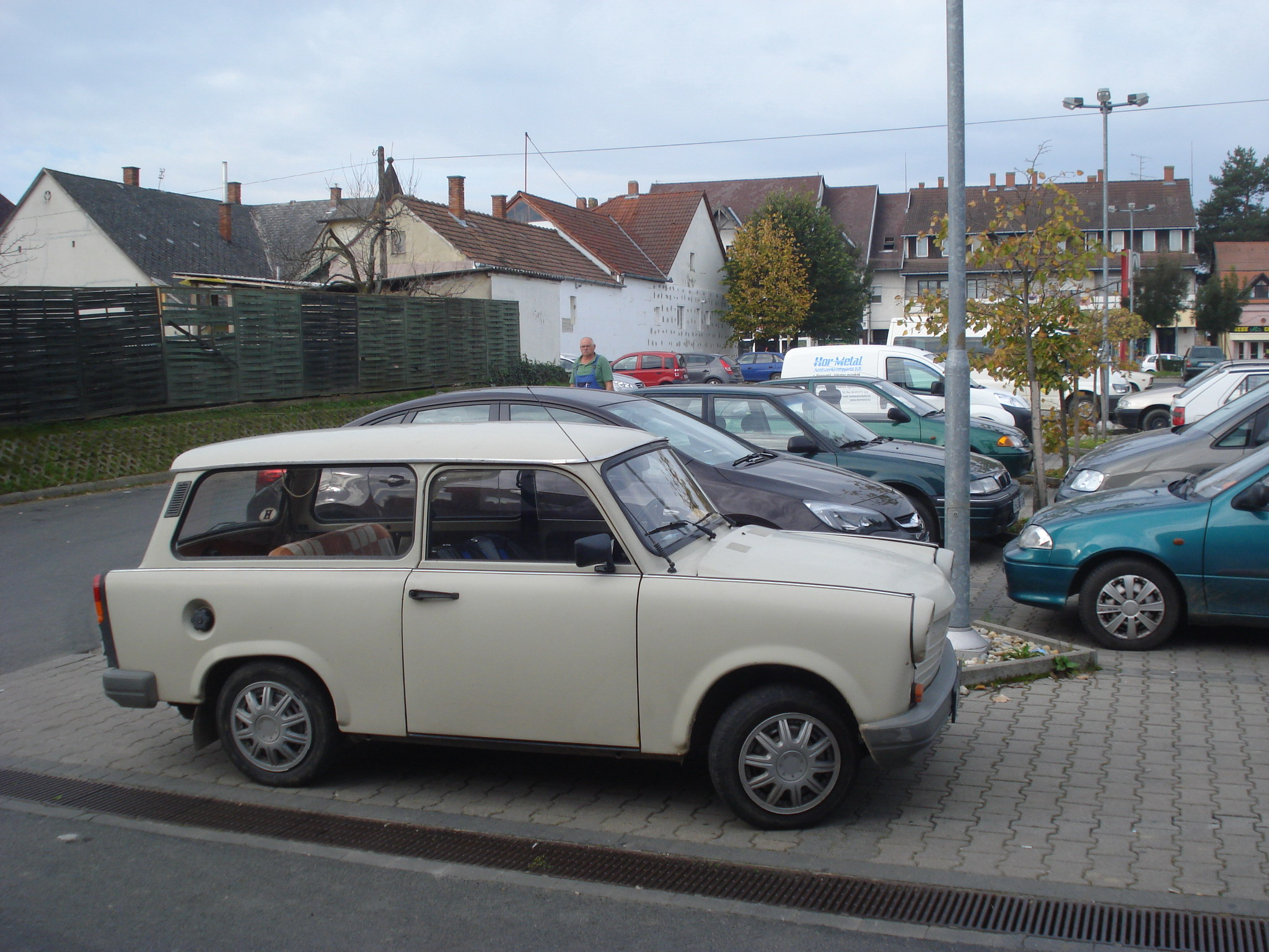 A Trabant (Model 1,1 Universal), East German car, photographed in Hungary